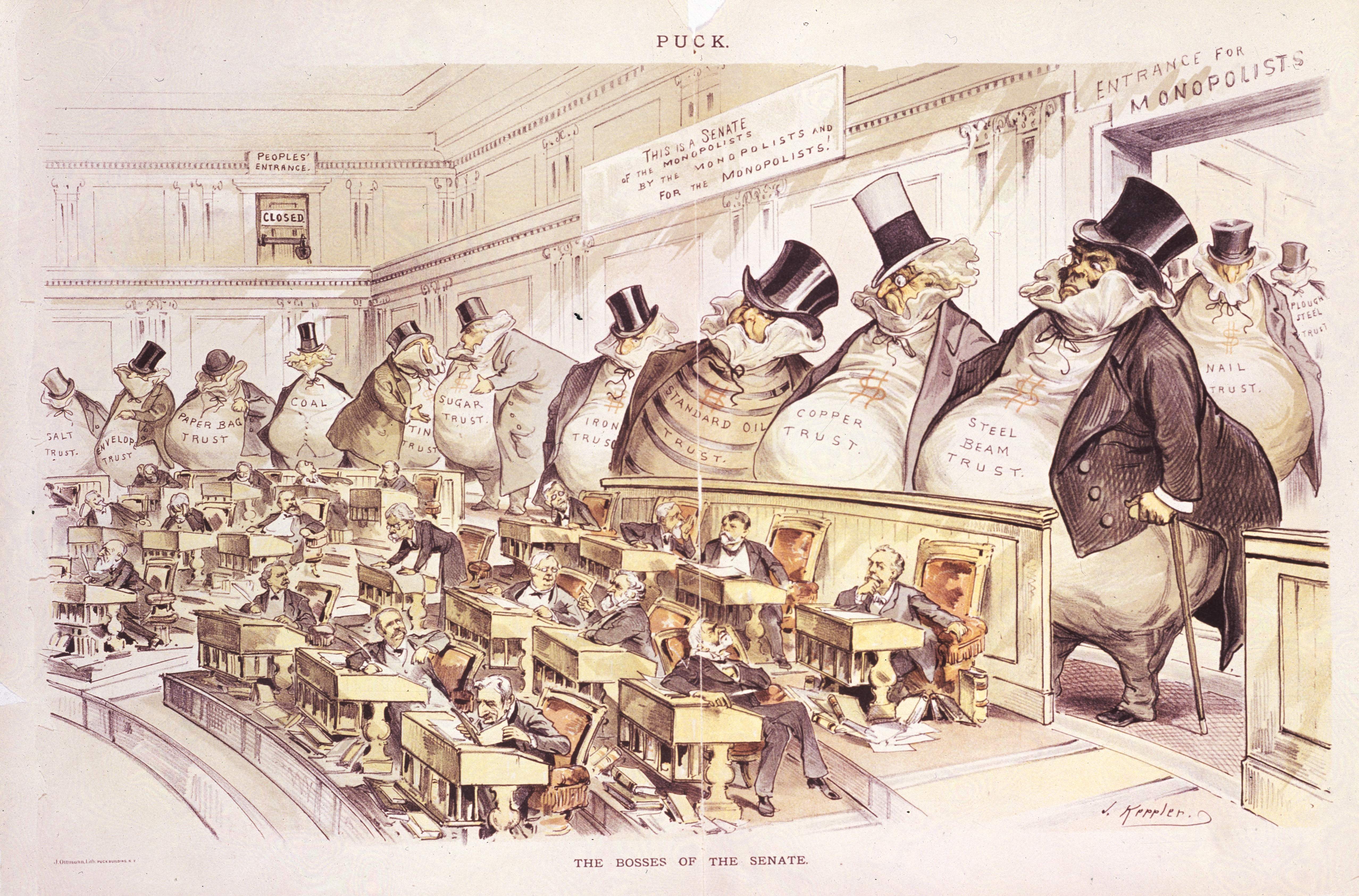 The Bosses of the Senate, a cartoon by Joseph Keppler. First published in Puck 1889. (This version published by the J. Ottmann Lith. Co. and held by the